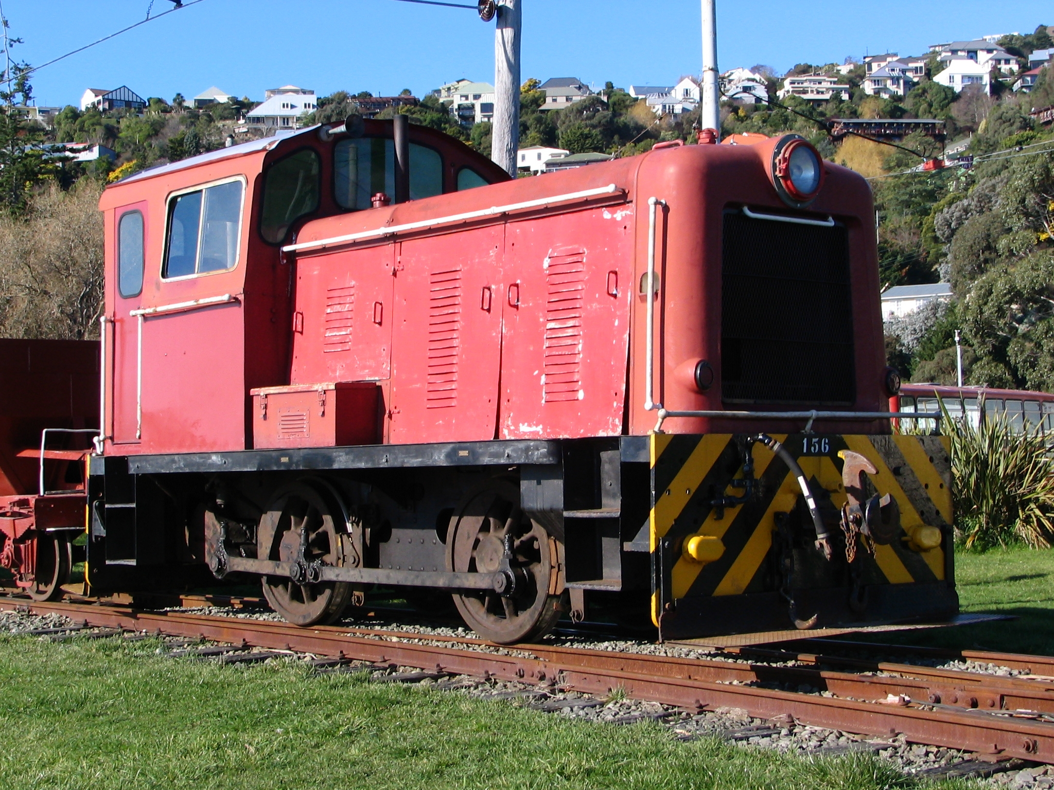 New Zealand Railways TR class diesel shunting locomotive at Ferrymead, Christchurch